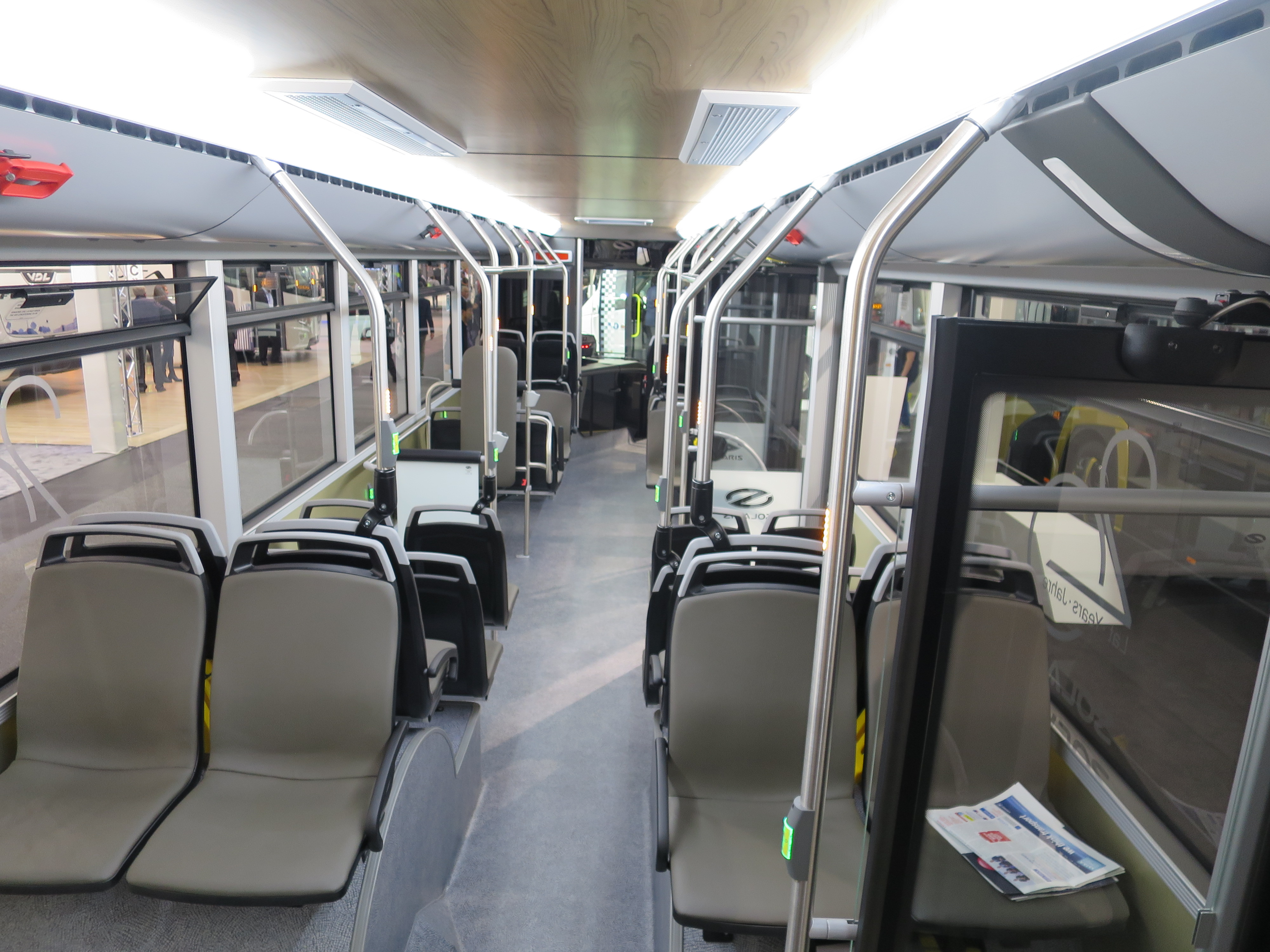 The making of this document was supported by Wikimedia Polska Association, within Wikigrant no. WG 2016-35. Solaris Urbino 12 CNG